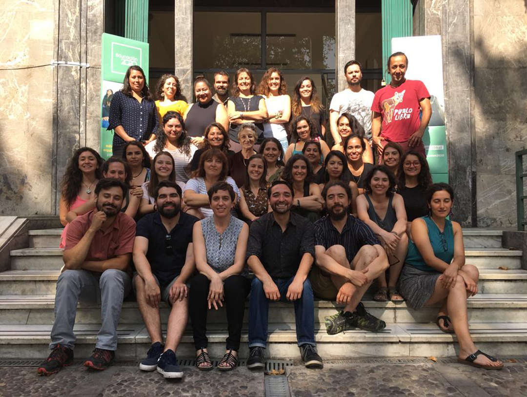 Educación 2020